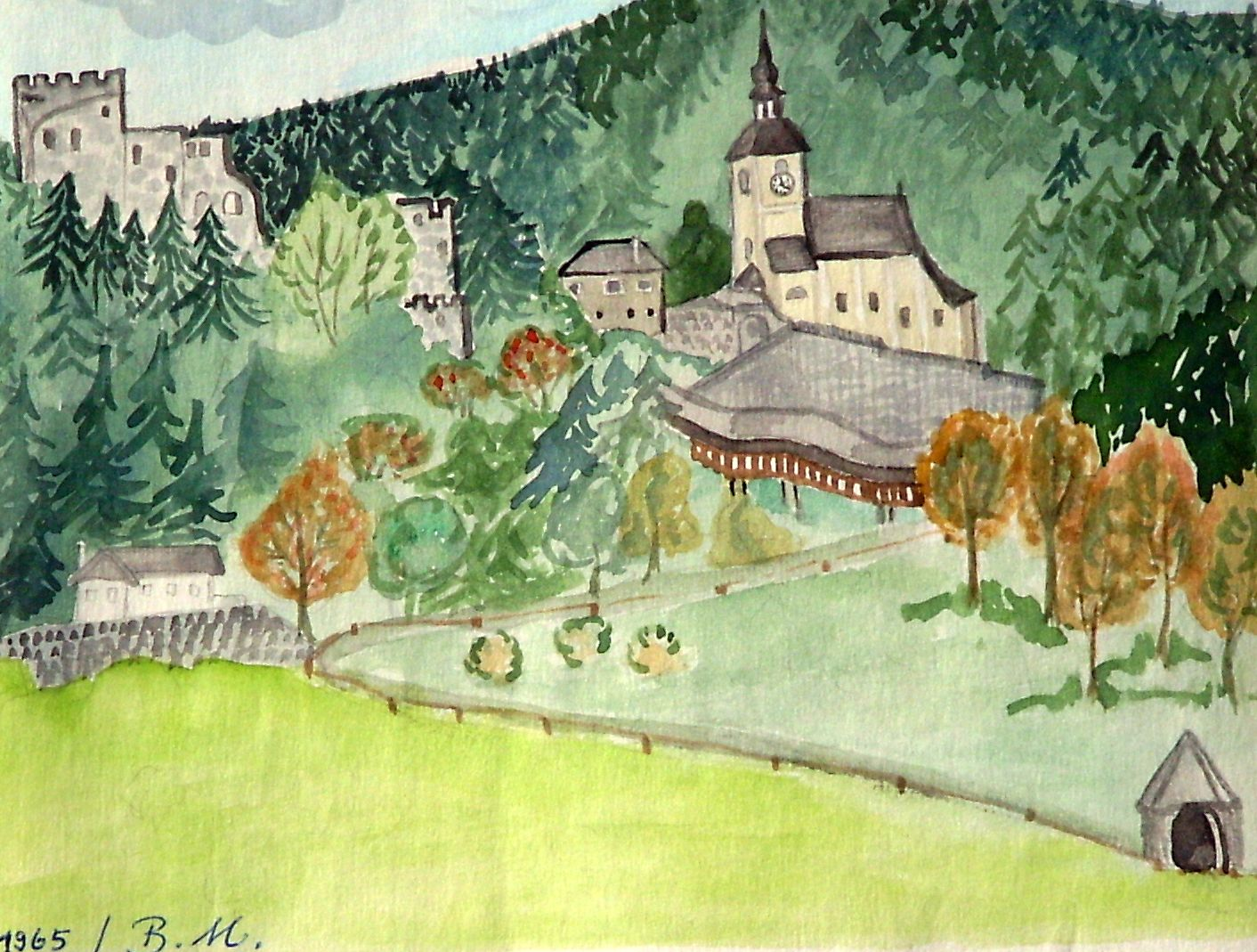 Castle ruin and church, Watercolor painting from Brunhilde Mayer, Unzmarkt-Frauenburg.